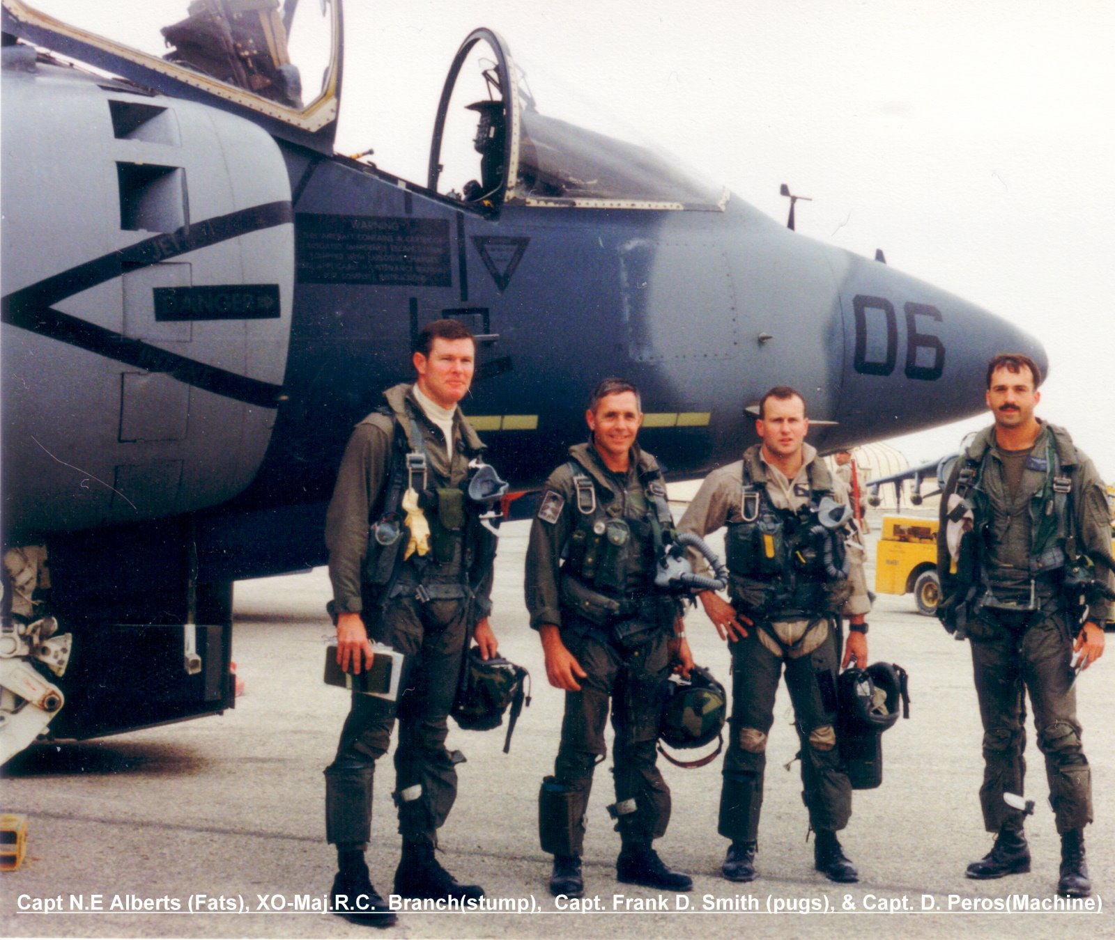 1st 4, VMA-311.Pilots, to take the USA, AV8B into combat. I, Corporal Collazo, of VMA-311 Power Line, took this.